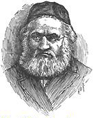 Portrait of Samuel Joseph Fuenn, from the 1906 Jewish Encyclopedia.